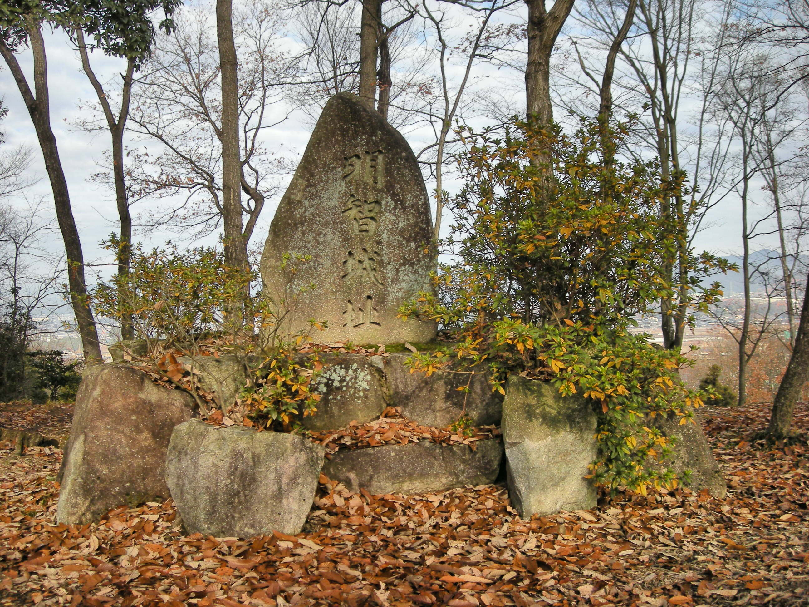 Trace of Akechi Castle（明智城(可児市)）